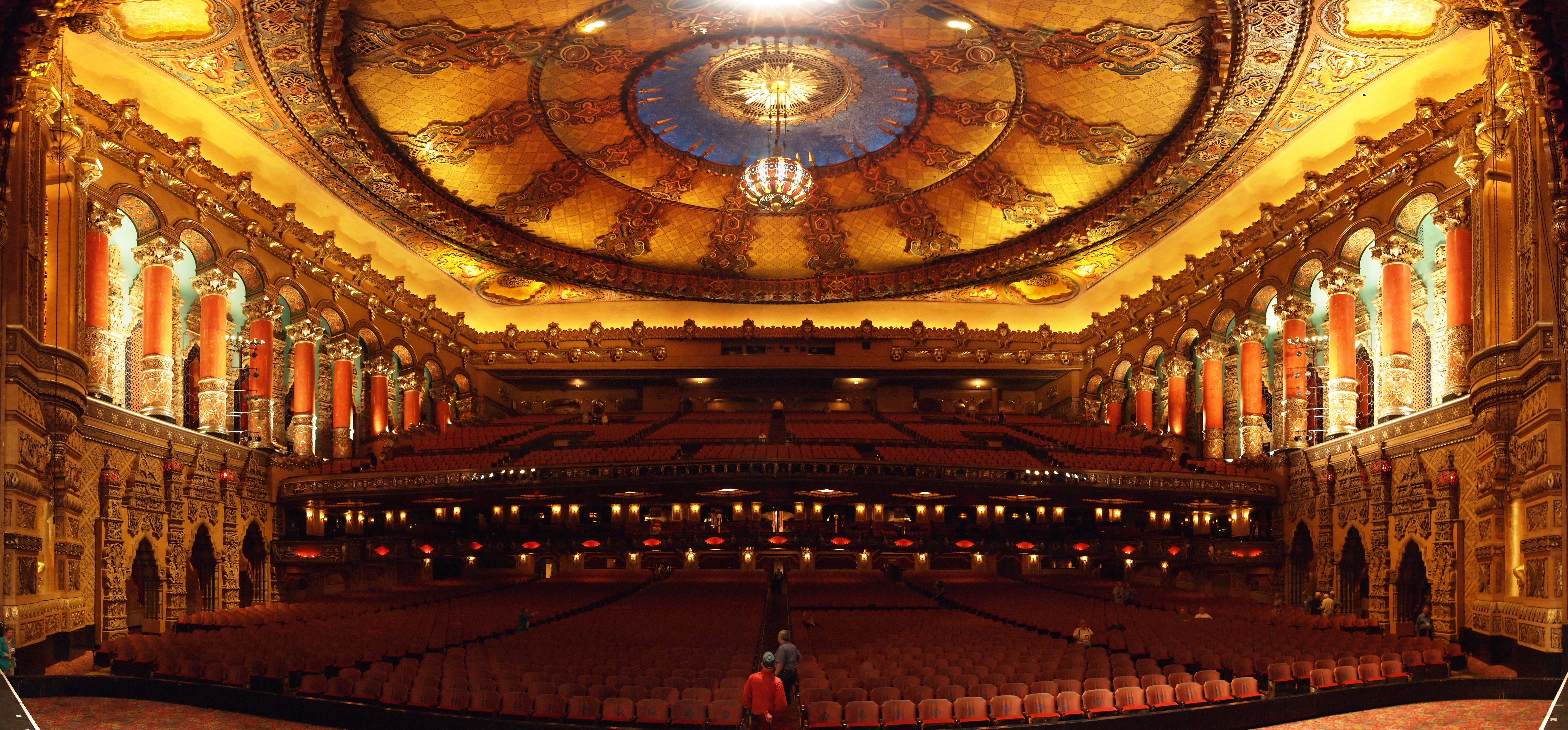 Auditorium of the Fox Theatre, Detroit.